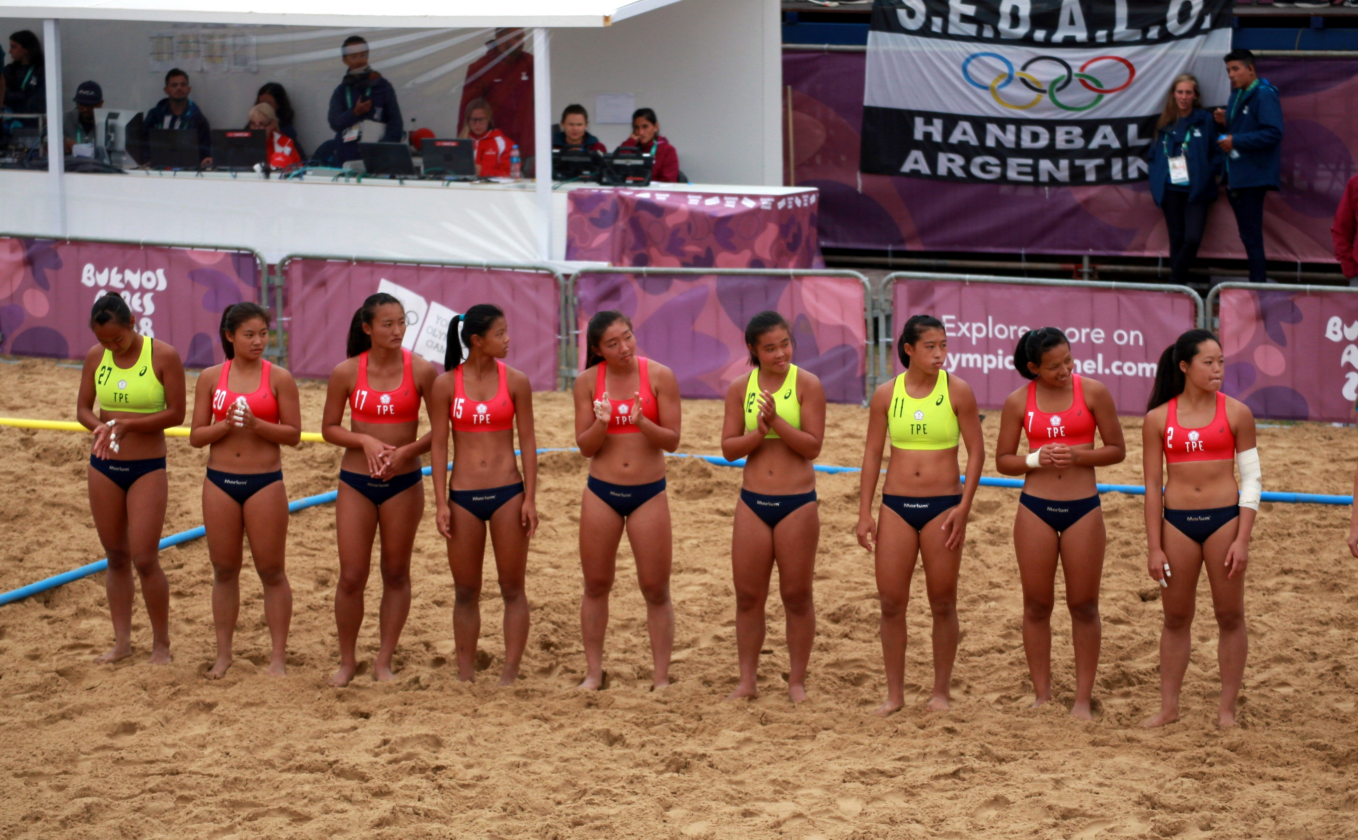 Beach handball at the 2018 Summer Youth Olympics at 12 October 2018 – Girls Main Round – Chinese Taipei (Taiwan)-Paraguay 0:2